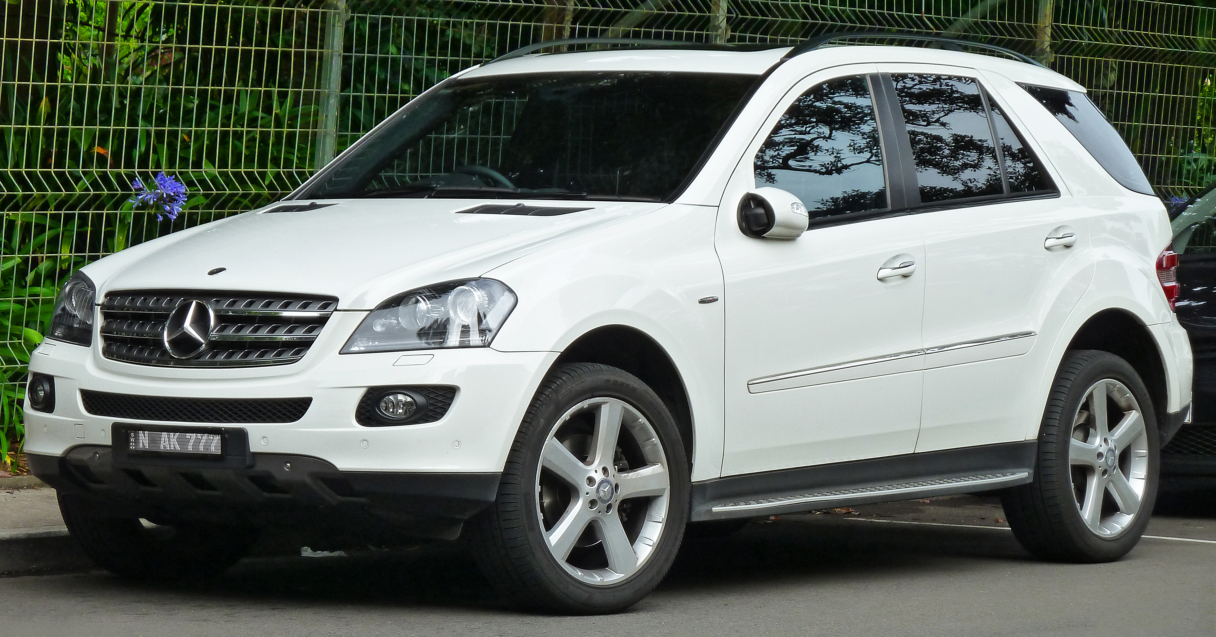 2008 Mercedes-Benz ML 320 CDI (W 164 MY08) Edition 10 wagon. Photographed in Sydney, New South Wales, Australia.